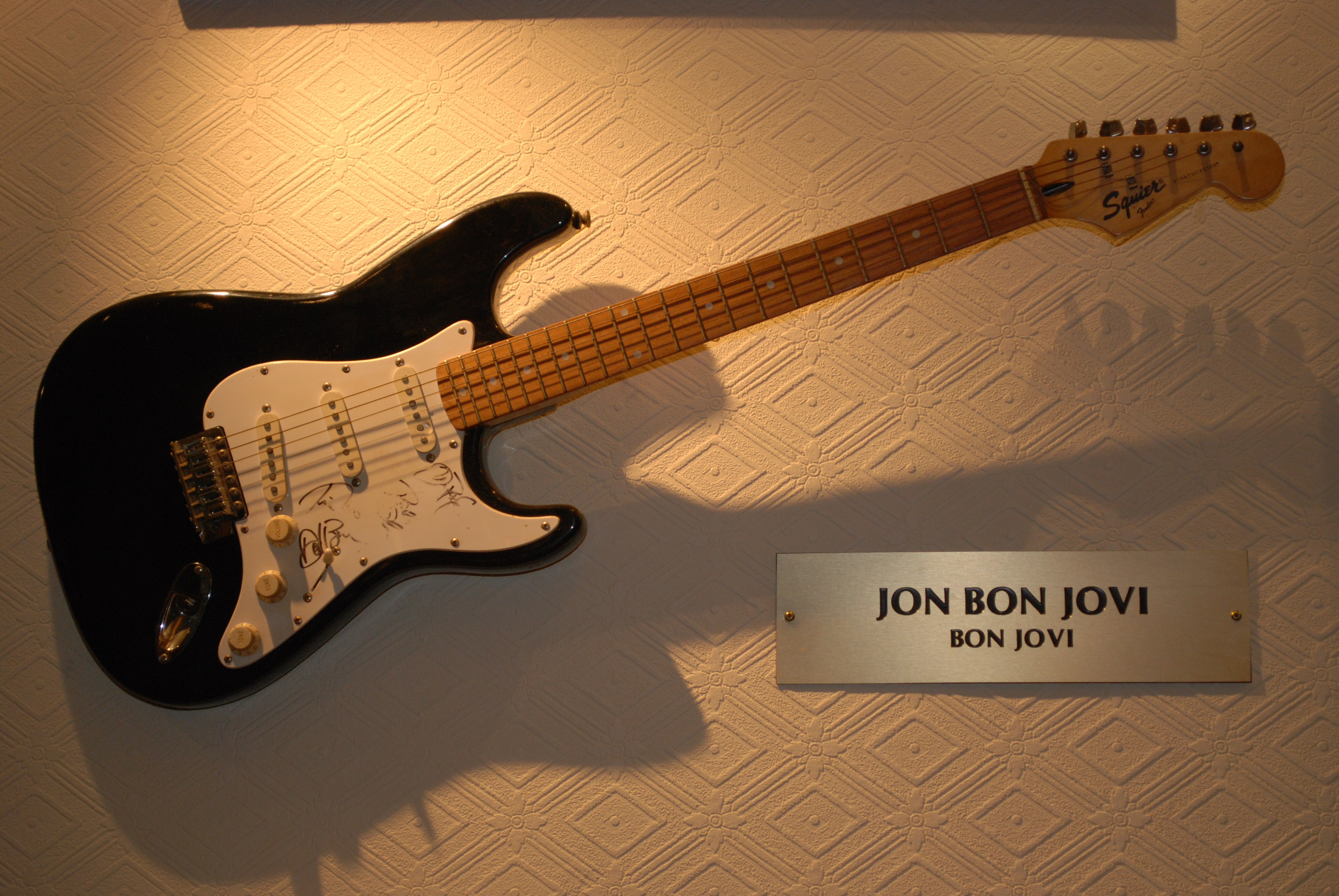 Jon Bon Jovi guitar. Moscow Hard Rock Cafe, Nov 2008.